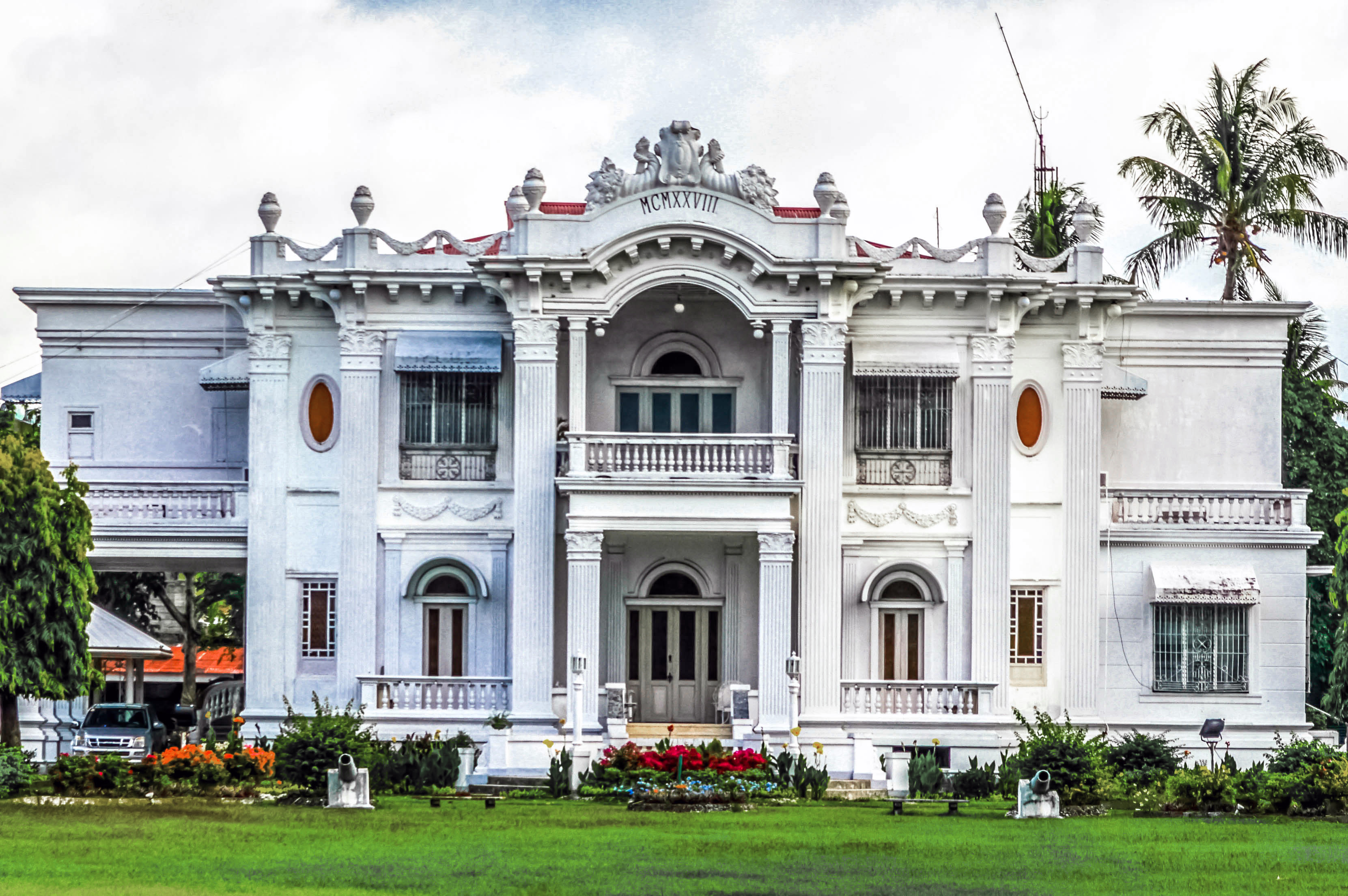 Lopez Heritage House, Iloilo